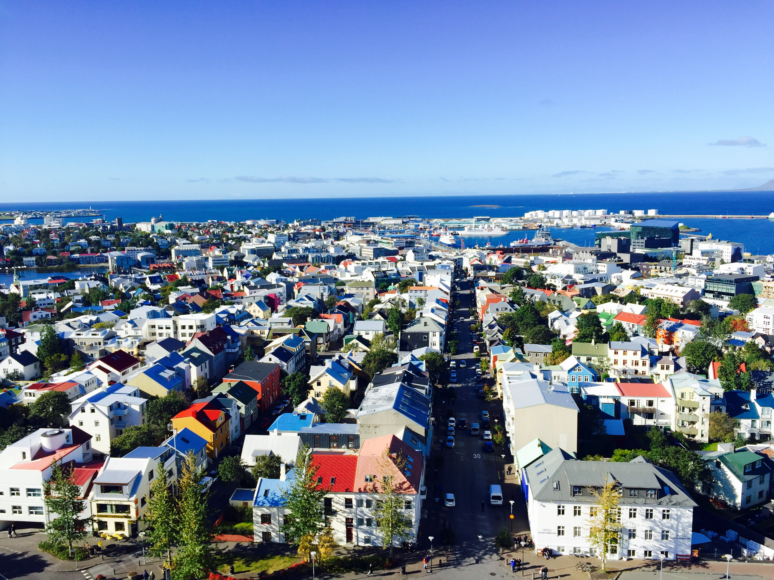 Central Reykjavík seen from Hallgrímskirkja